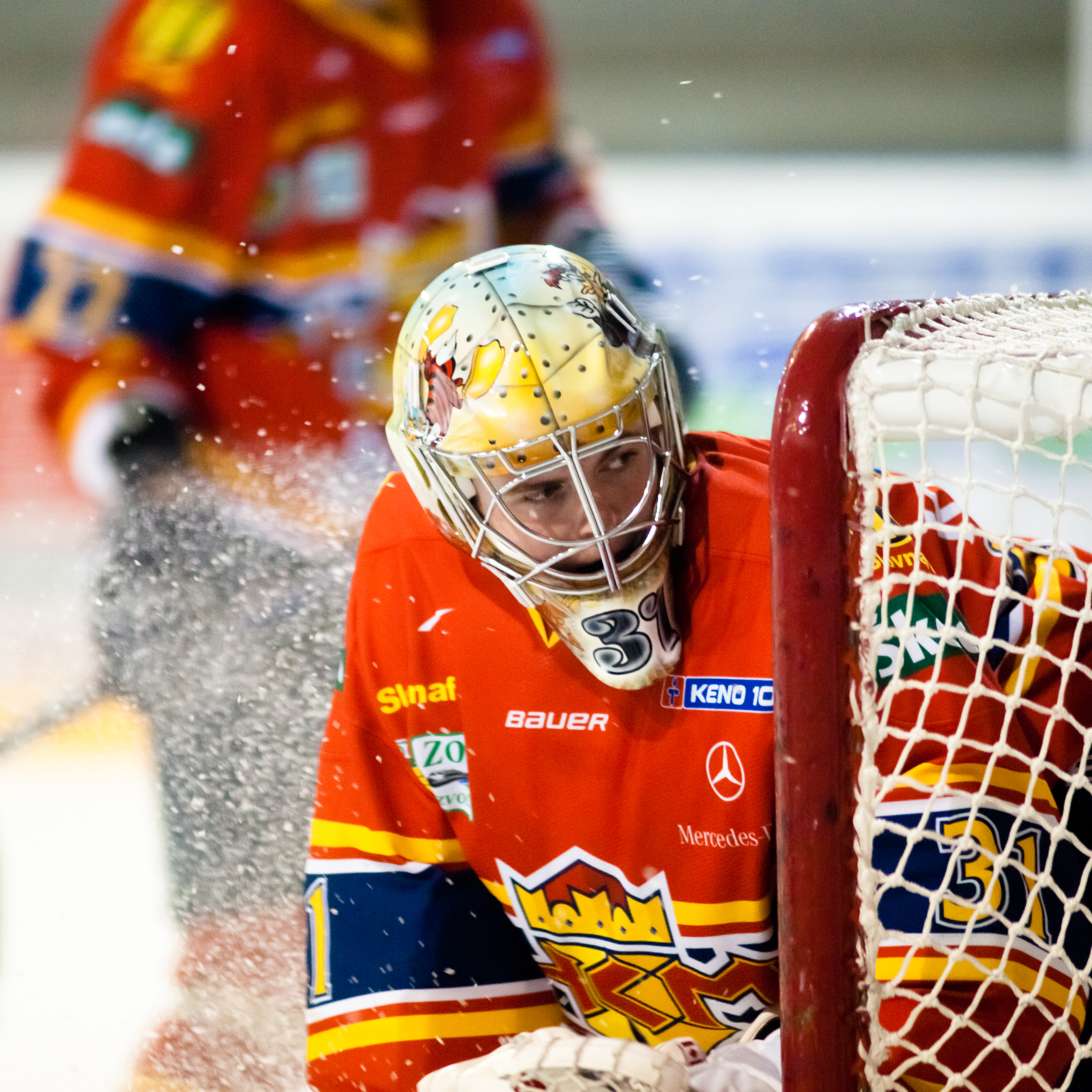 Kristin Matej, the goal-keeper of HKm Zvolen